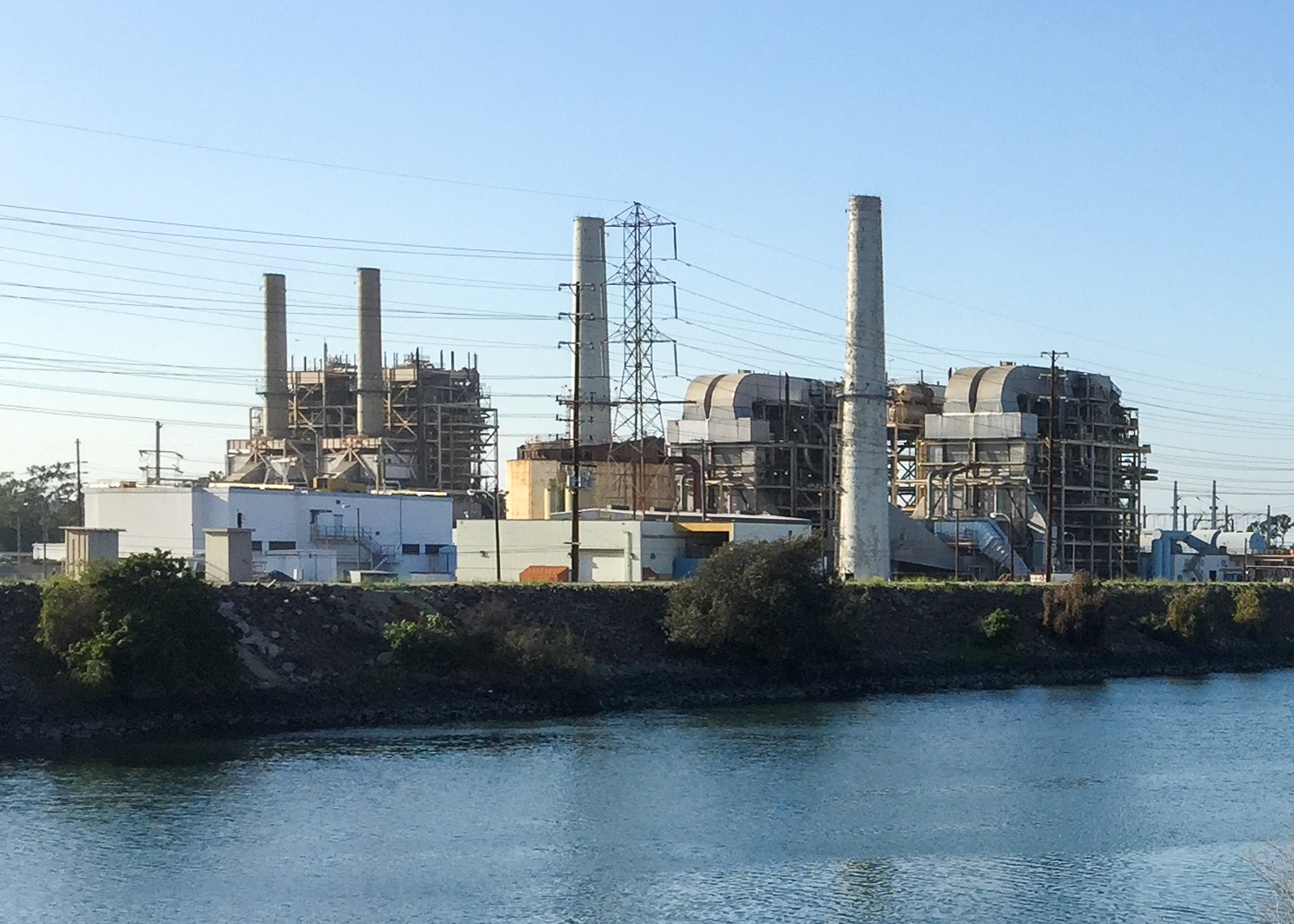 Alamitos Generating Station Units 1, 2, 3 and 4 from the San Gabriel River Bike Trail. This was taken before modernization began in 2017.